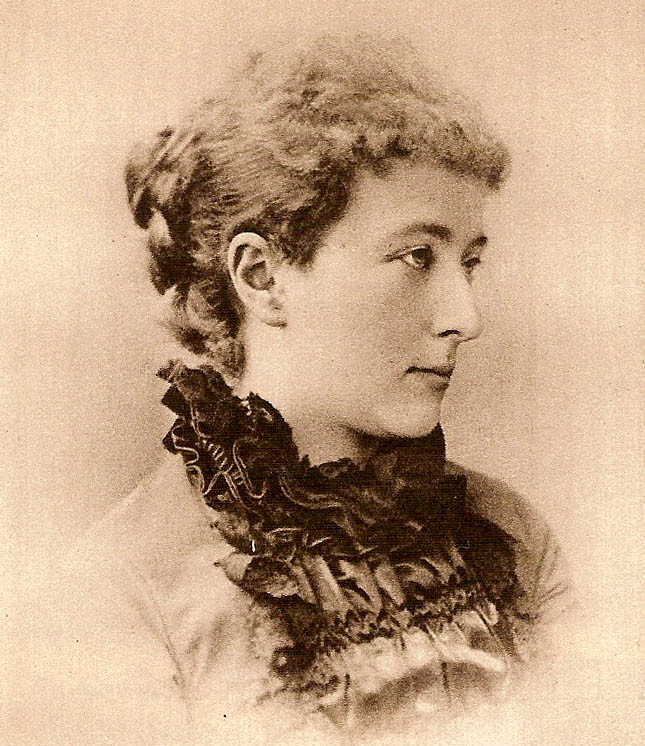 Anna Branting (1855-1950), swedish author and wife of swedish primeminister Hjalmar Branting